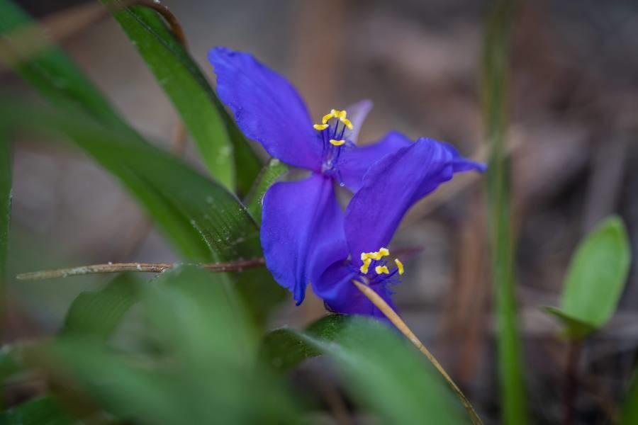 Tradescantia virginiana, Virginia spiderwort, flower